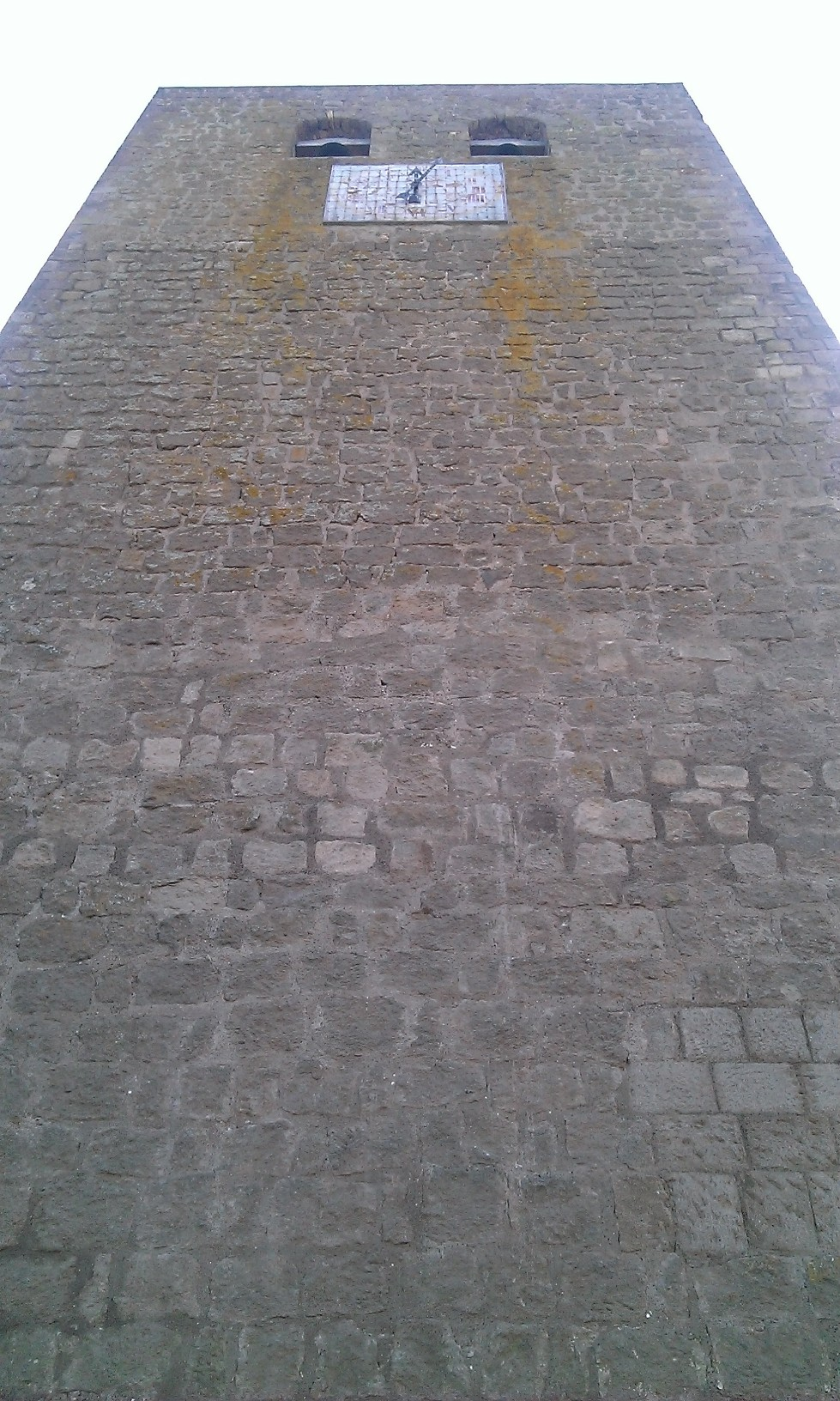 Torre dell'Orologio in Bassano in Teverina